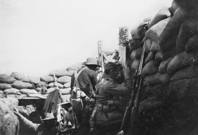 AWM description: Men of the 22nd Battalion in the front line trench near Lone Pine, Anzac area. One soldier is sniping with a periscopic rifle, while another observes the fire through a periscope.